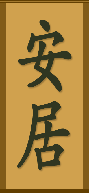 Japanese term for a three month long period of intense training for students of Zen Buddhism